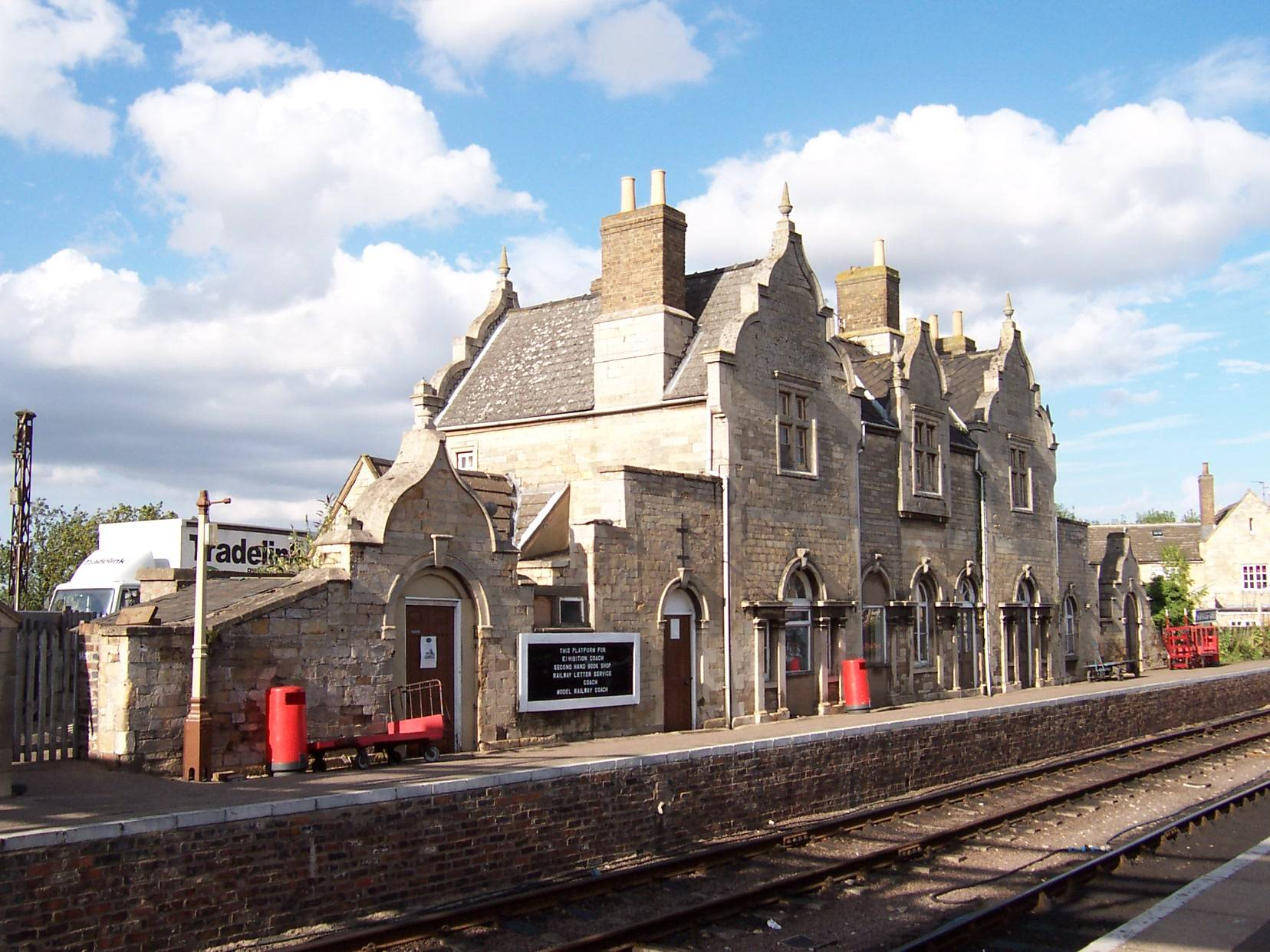 The Wansford Station building on Platform 3, which was originally used to sell tickets and provide waiting room for passengers on the Nene Valley Line, before preservation. This building was previously in private ownership and is now for sale.